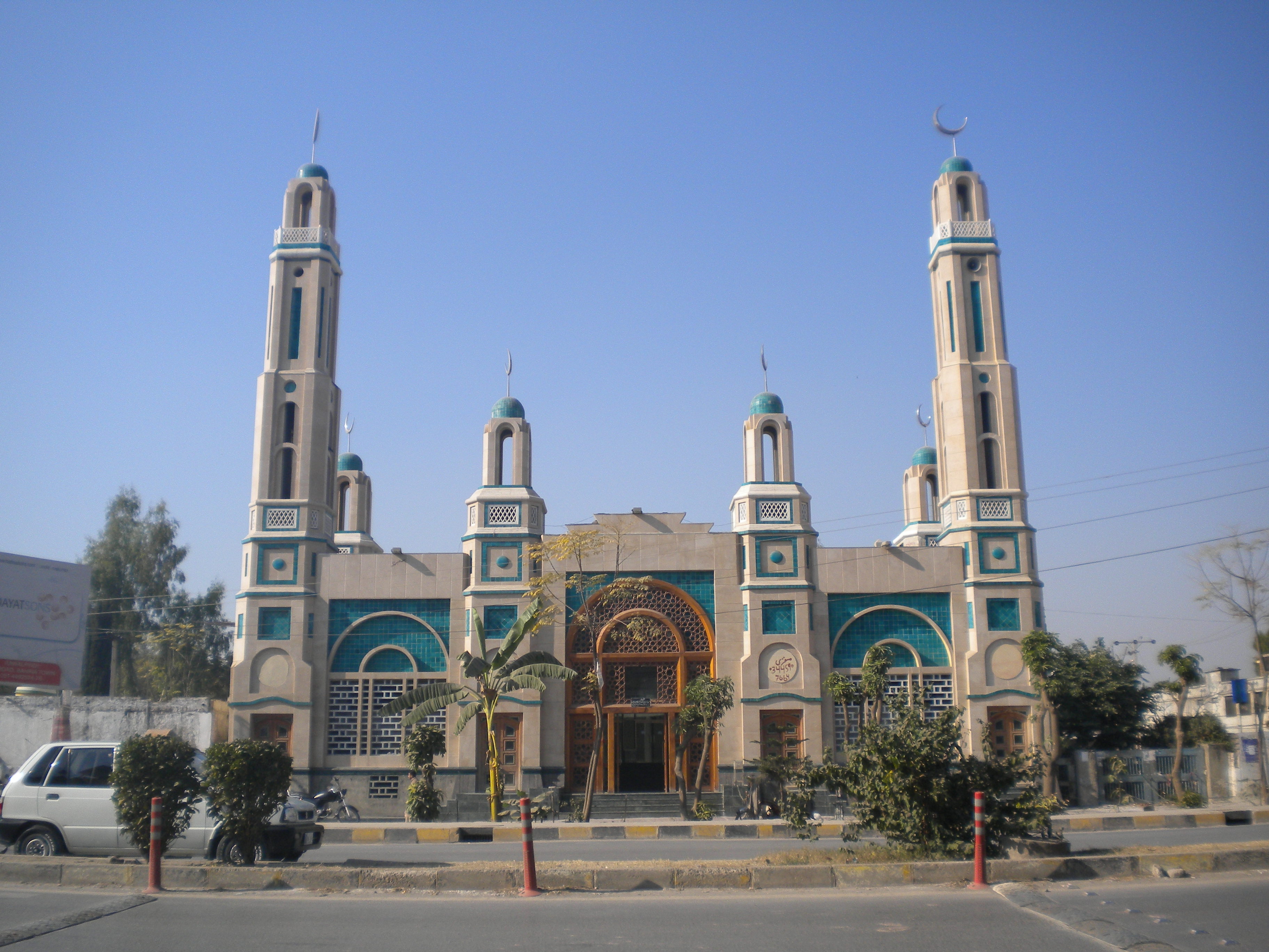 Gulshan Dadan Khan Mosque, Murree Road, Rawalpindi, Pakistan